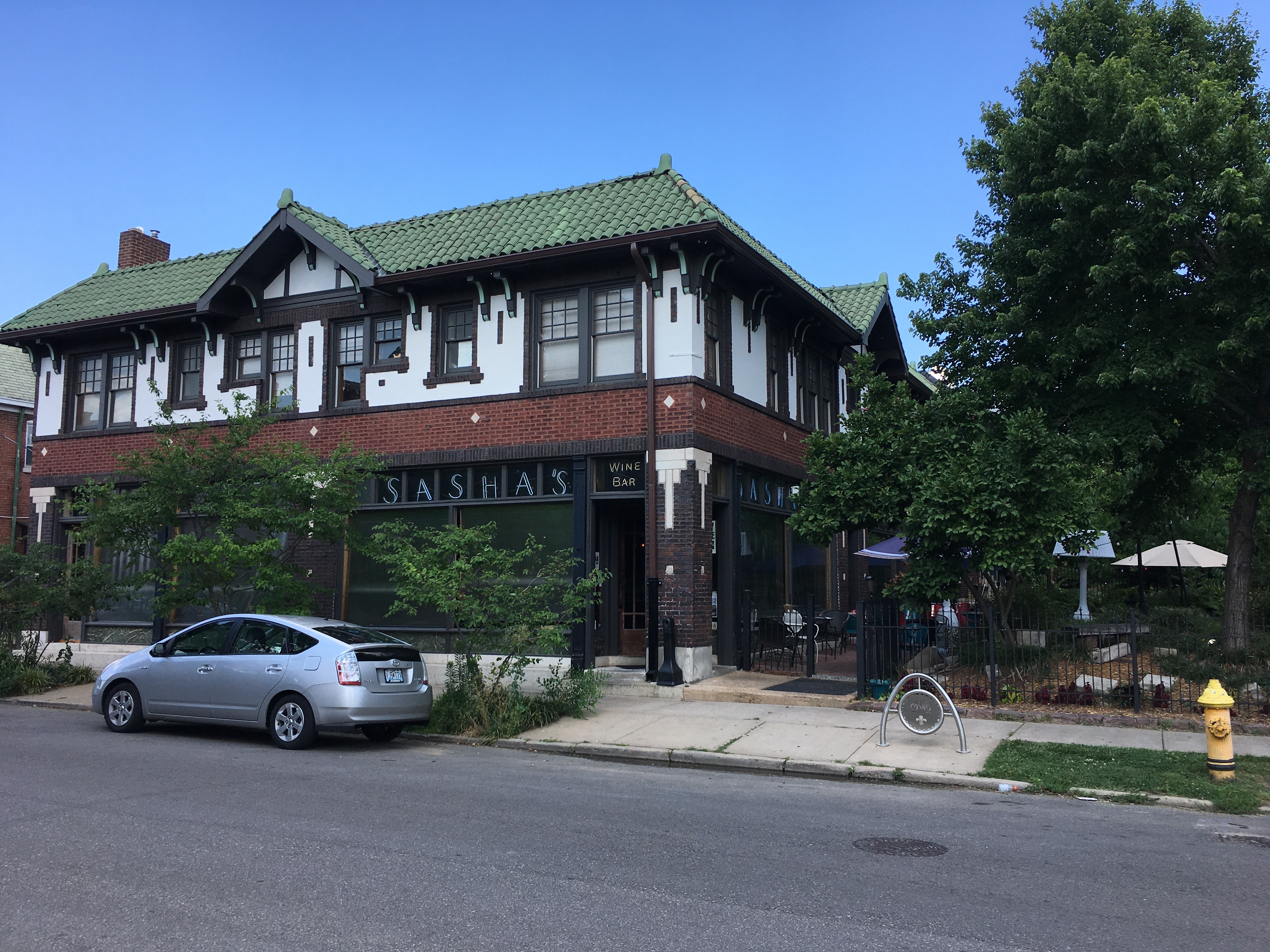 Sasha's Wine Bar on Shaw Boulevard is a wonderful establishment in Shaw.